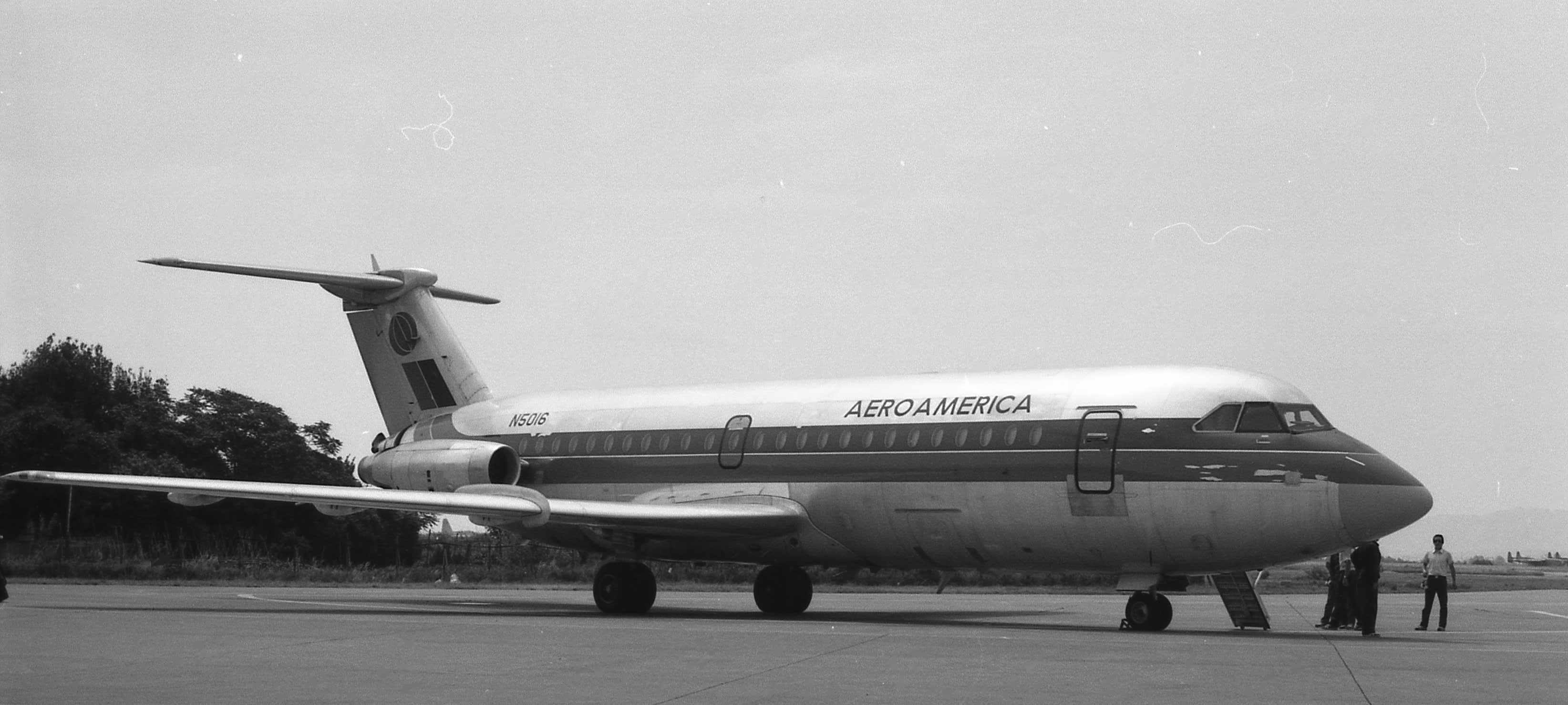 Italy, Pisa International Airport. Aeroamerica BAC 1-11 Series 401AK N5016, c/n 56, first flight 1965-12-08, delivered to American Airlines in 1966-01-22. Sold to Aeroamerica in 1975 and based in Berlin Tegel Airport for flight charter in Europe.